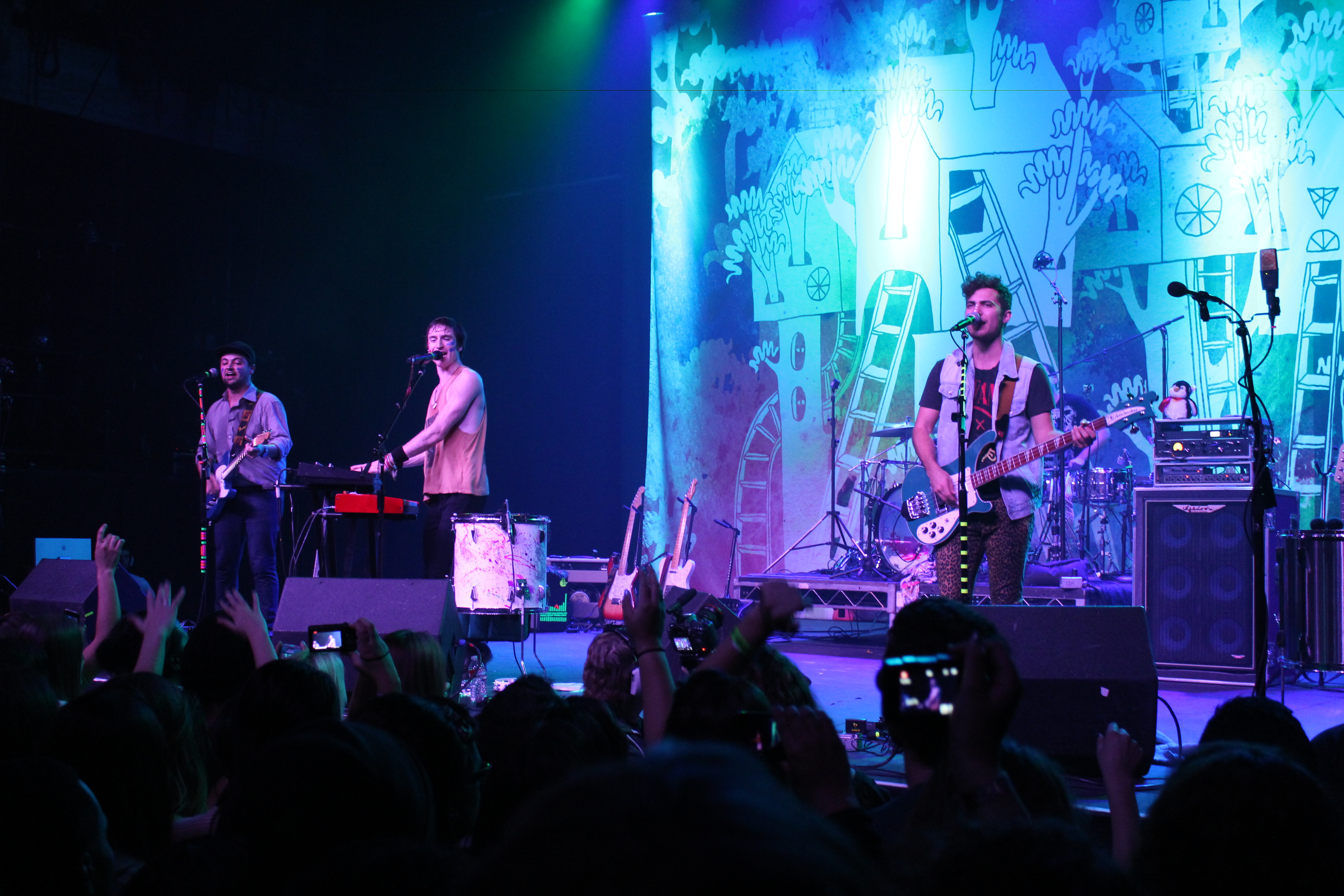 Walk the Moon performing in Los Angeles, California in 2012